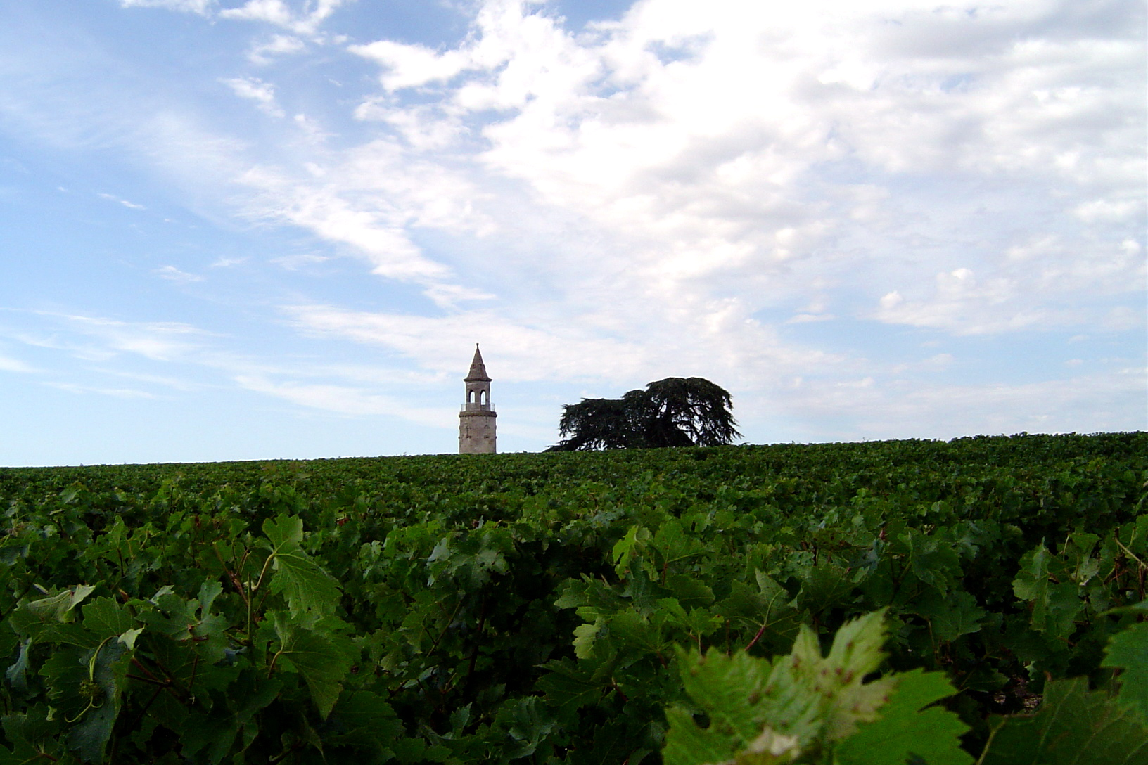 Bégédan vineyards in the Haut-Medoc of Bordeaux.